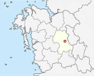 Map of Gongju in South Korea